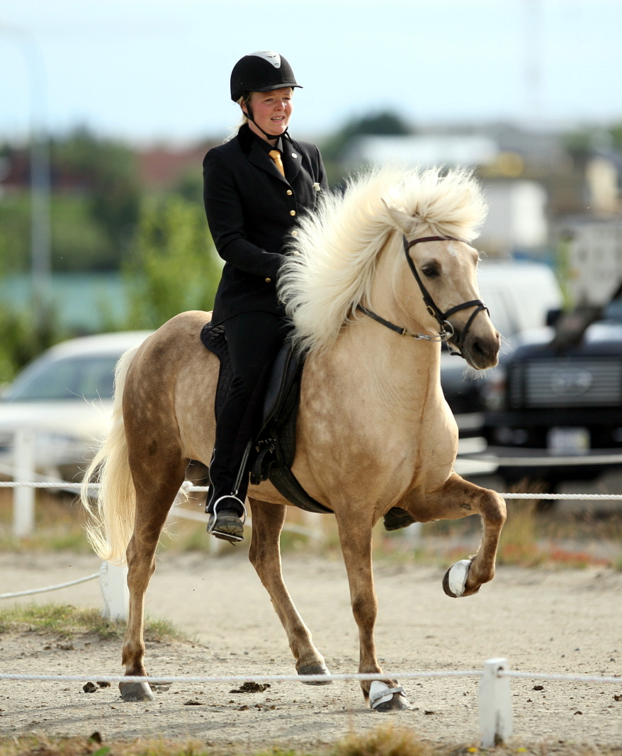 Mette Mannseth Happadís frá Stangarholti Leirljós/Hvítur/ljós- stj... Léttfeti // a palomino Icelandic horse with a clear front and sooty body